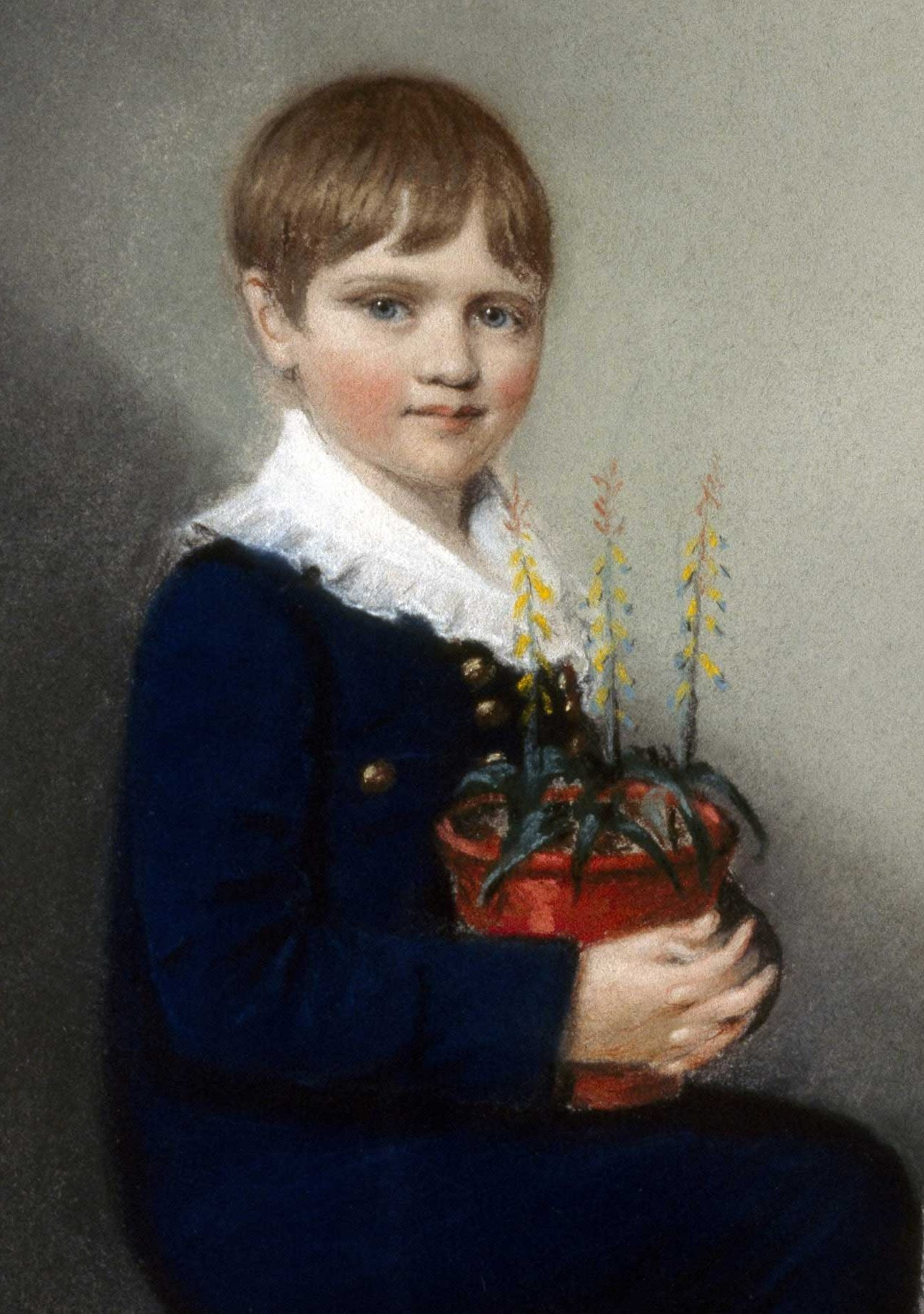 Charles Darwin (1809-1882) at age 7. The painting is the earliest picture known, of Charles Darwin.